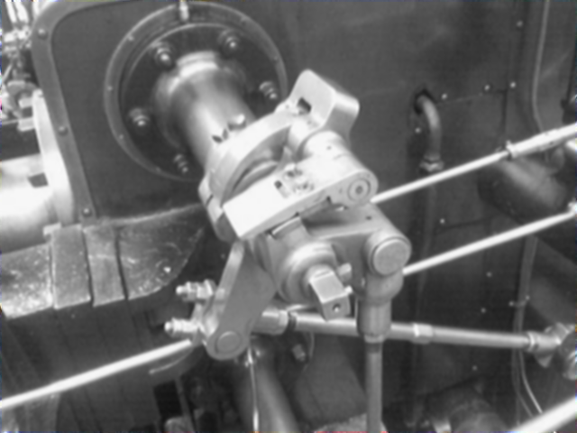 The original image was taken by me in Manchester in the Museum of Science and Industry in Manchester. This was obtained using a Java edge detection program I wrote. If you want the source code leave me a message.